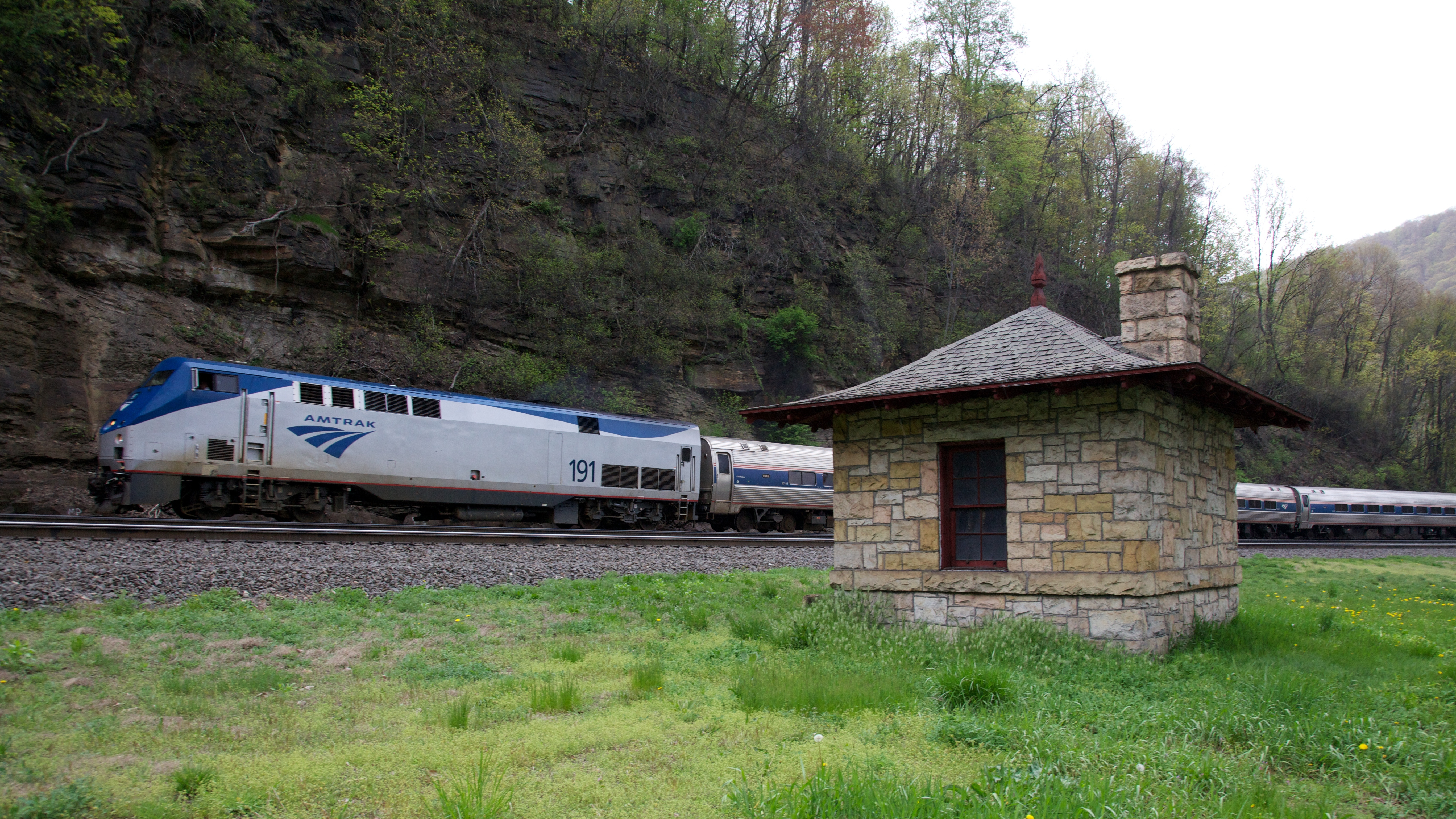 Horseshoe Curve is on the main line of the Norfolk Southern Railway between Pittsburgh and Harrisburg, Pennsylvania. The horseshoe allows trains trains heading west from Altoona to climb an acceptable grade of (1.85%) to reach the summit of the Allegheny Mountains.